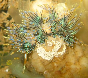 Godiva quadricolor from Western Australia. I have taken this photo on 27 December 2002. Also donated to Australian Museum Online, Sea Slug Forum.